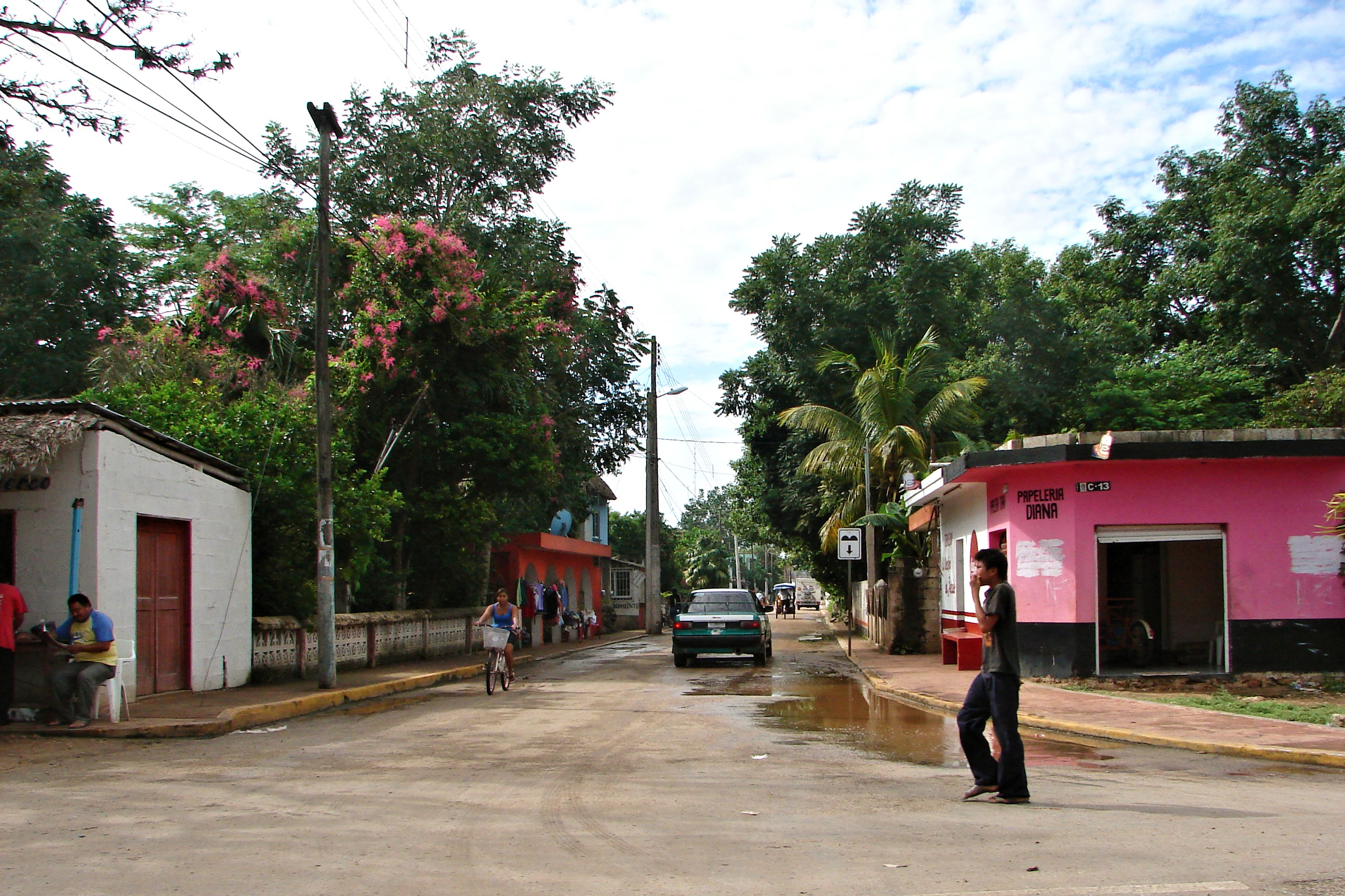 Chemax, Yucatan, Mexico